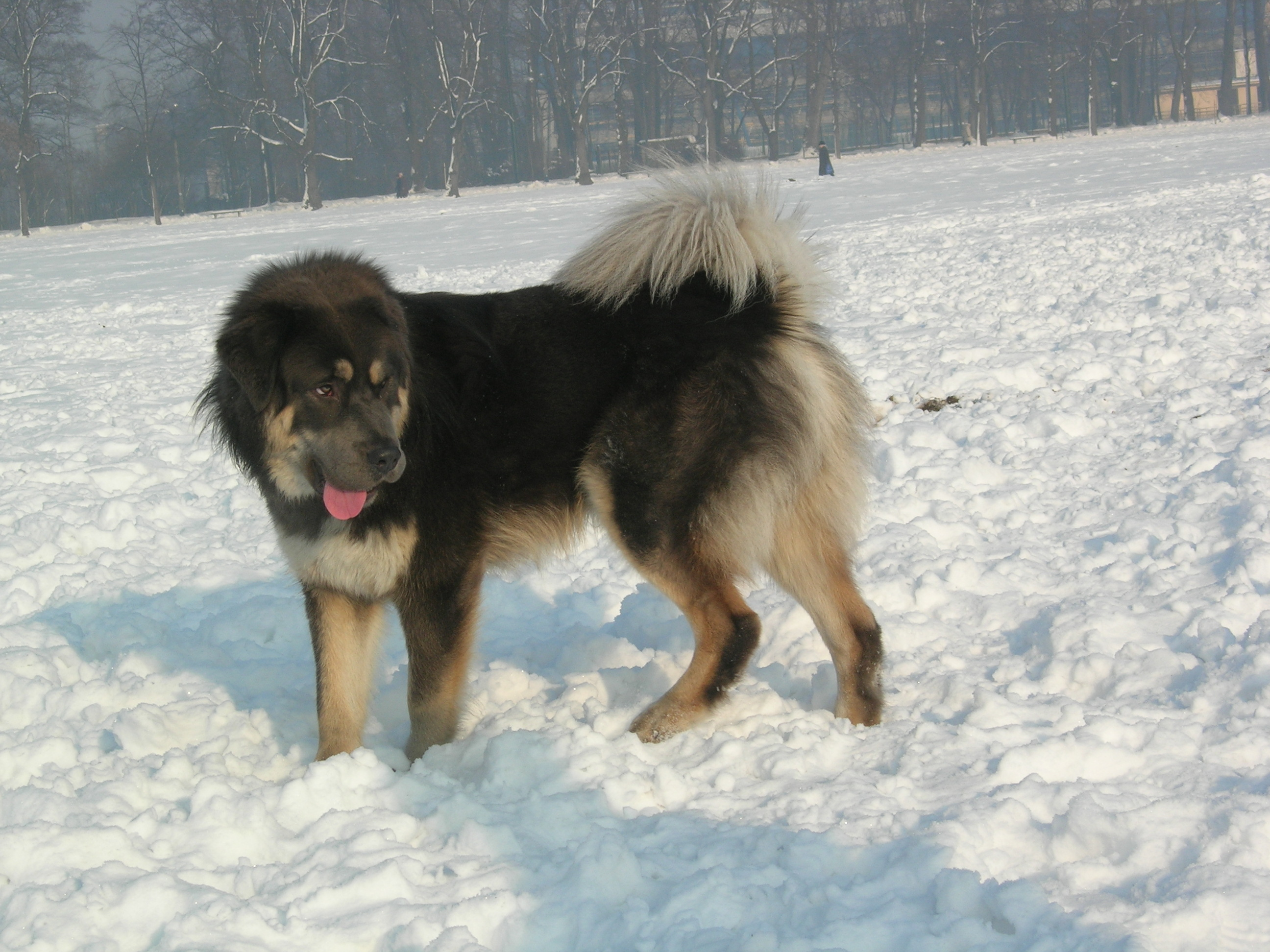 Tibetan Mastiff